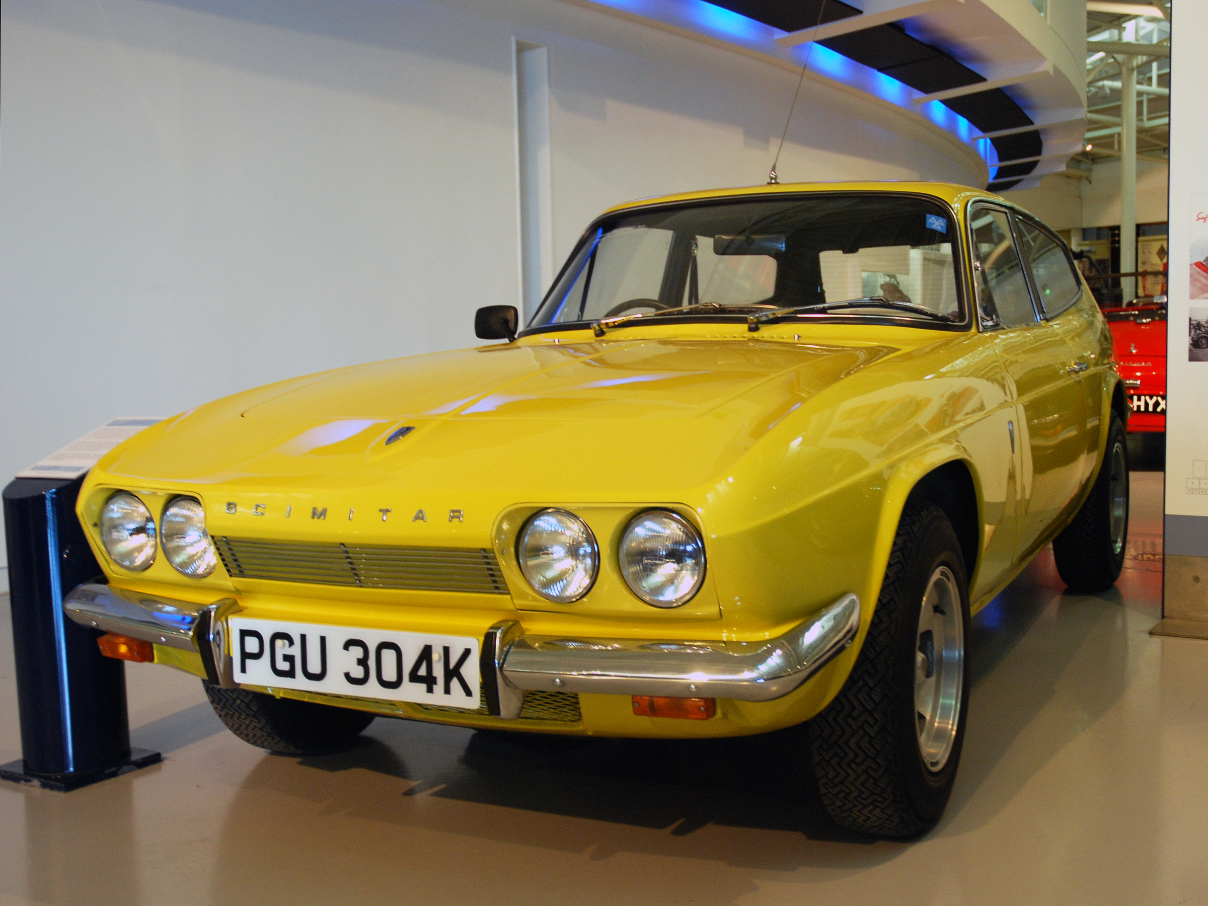 Heritage Motor Centre,Oct 2008